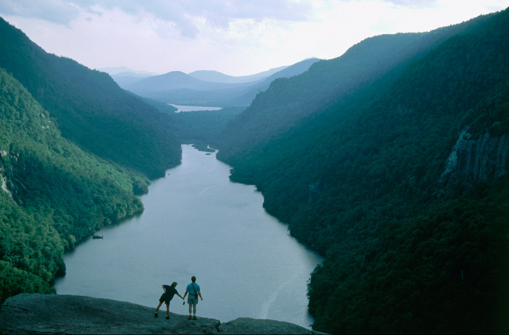 Indian Head Lookout on Lower AuSable Lake in the Adirondack High Peaks. Taken in the summer of 1996.